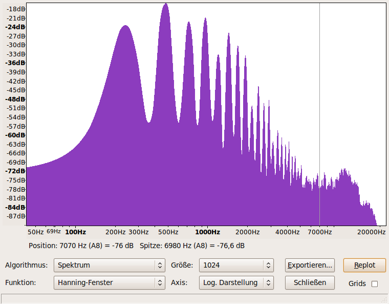 plastic vuvuzela frequency analysis